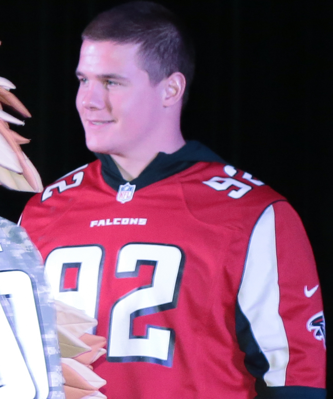 FORT BENNING, Ga. (Jan. 29, 2019) Staff Sgt. Aide Marin, shown in uniform, assigned to 1st Battalion, 507th Parachute Infantry Regiment at Fort Benning, Georgia, receives two tickets to the 2019 Super Bowl courtesy of the NFL during the NFL Salute to Service Jan. 29, 2019. The NFL and USO came together to throw the event, which included a meet and greet with Atlanta Falcons players and cheerleaders, at Fort Benning where two families won tickets to the 2019 Super Bowl. (U.S. Army photo by Markeith Horace)